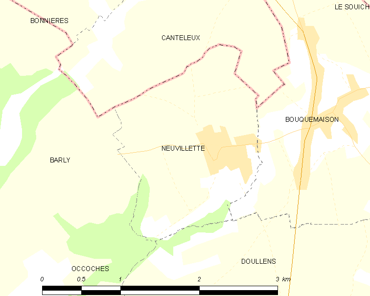 Map of French municipality Neuvillette